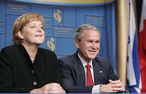 President George W. Bush shares a moment with Chancellor Angela Merkel during the American Jewish Committee's Centennial Dinner Thursday, May 4, 2006, at the National Building Museum in Washington, D.C.